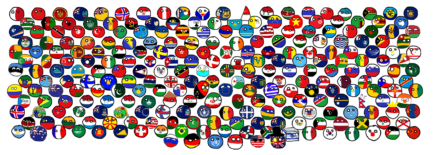 Polandballs of all countries and territories, alongside Polandballs of some international organizations